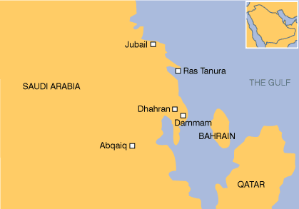 Map of Region of Saudi Arabia that includes Dhahran, Ras Tanura, Abqaiq, and Jubail.